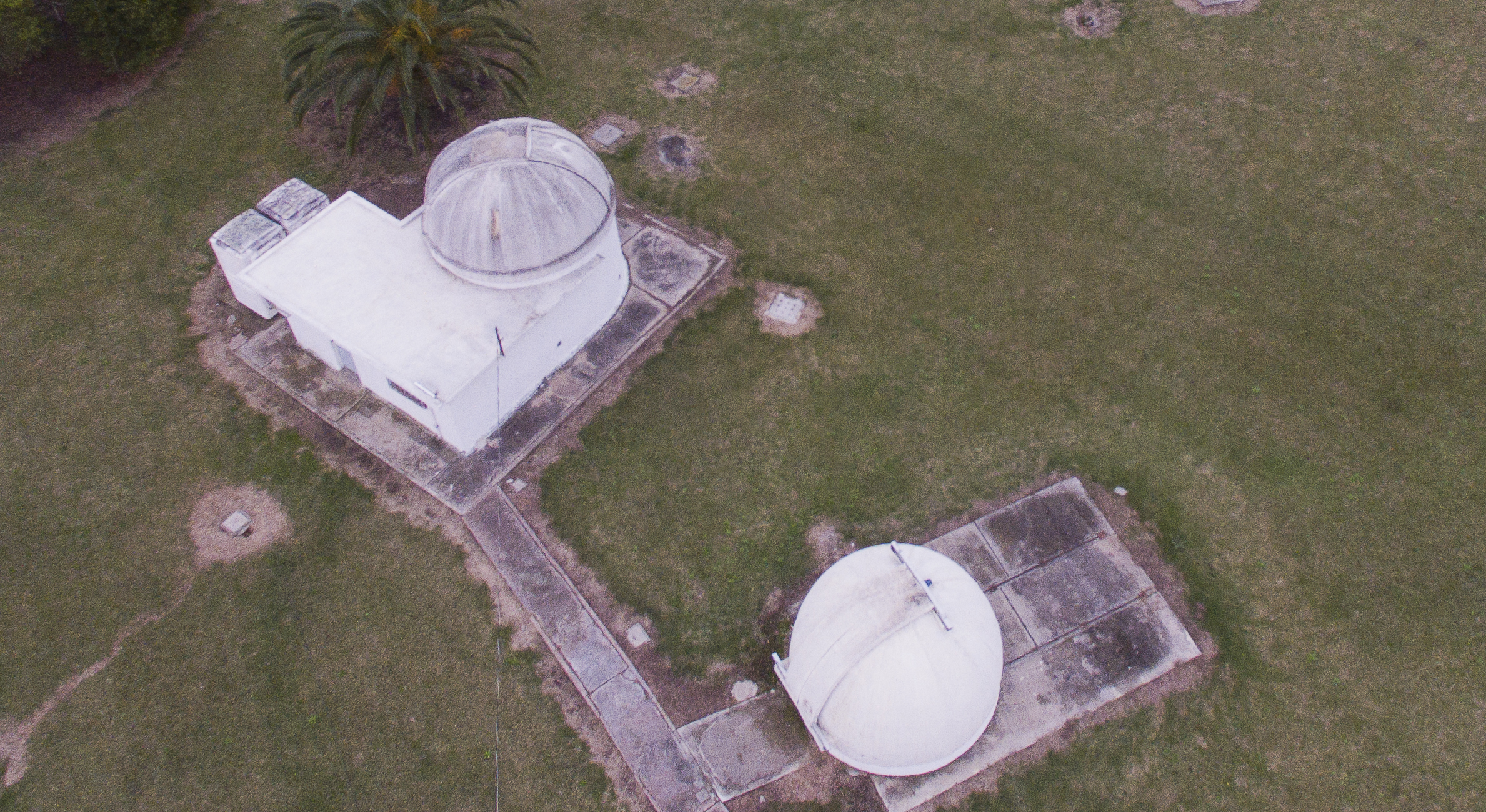 Observatory ¨Los Molinos¨Uruguay